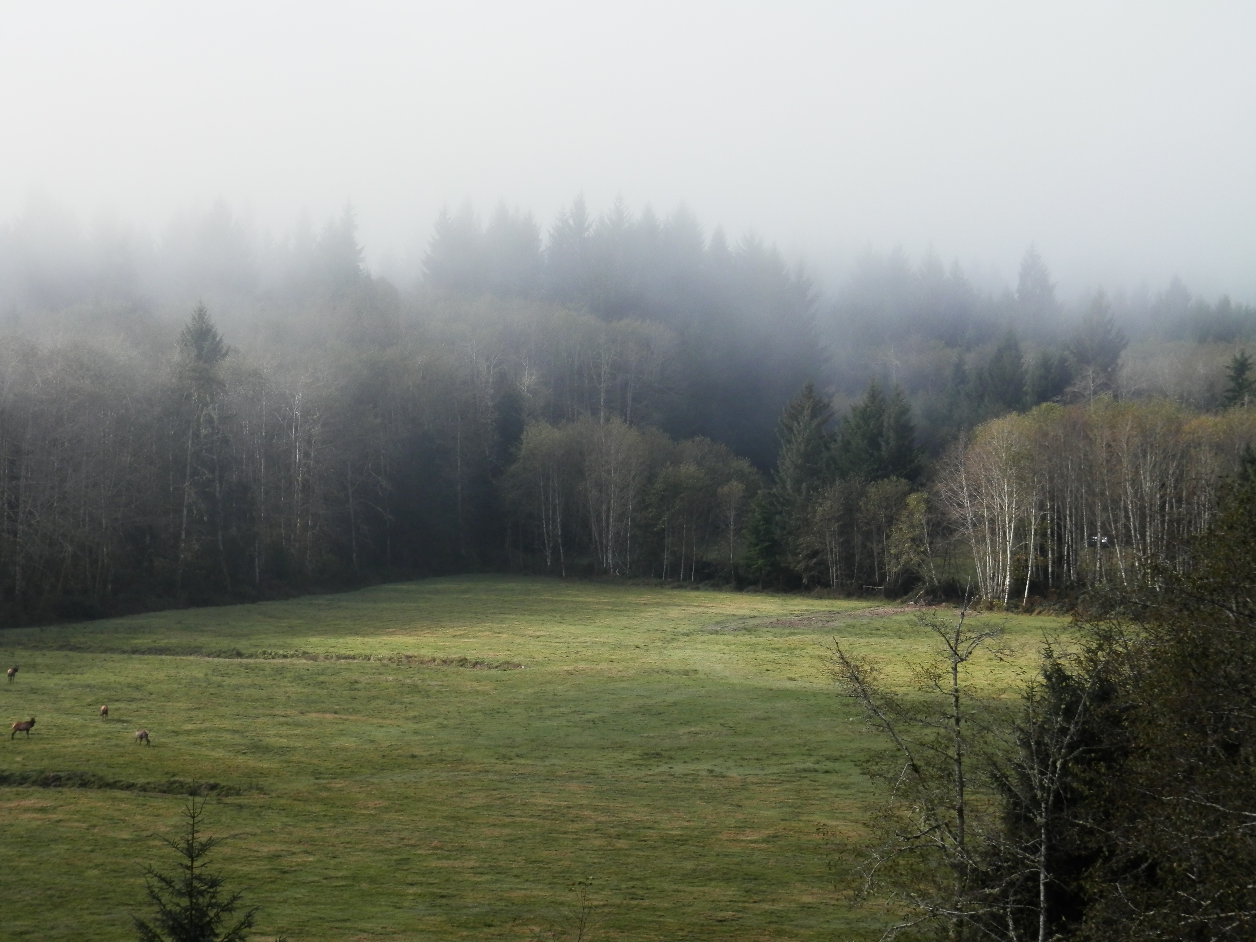 Field in Forks, elk on the left side.